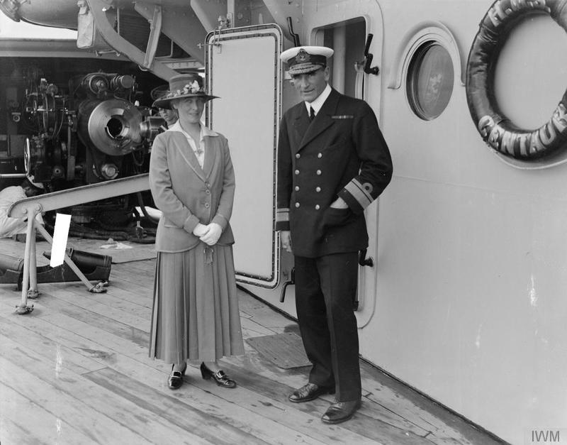 The Royal Navy on the Home Front, 1914-1918 Commodore Reginald Yorke Tyrwhitt and Lady Tyrwhitt onboard the Royal Navy's light cruiser HMS Centaur.